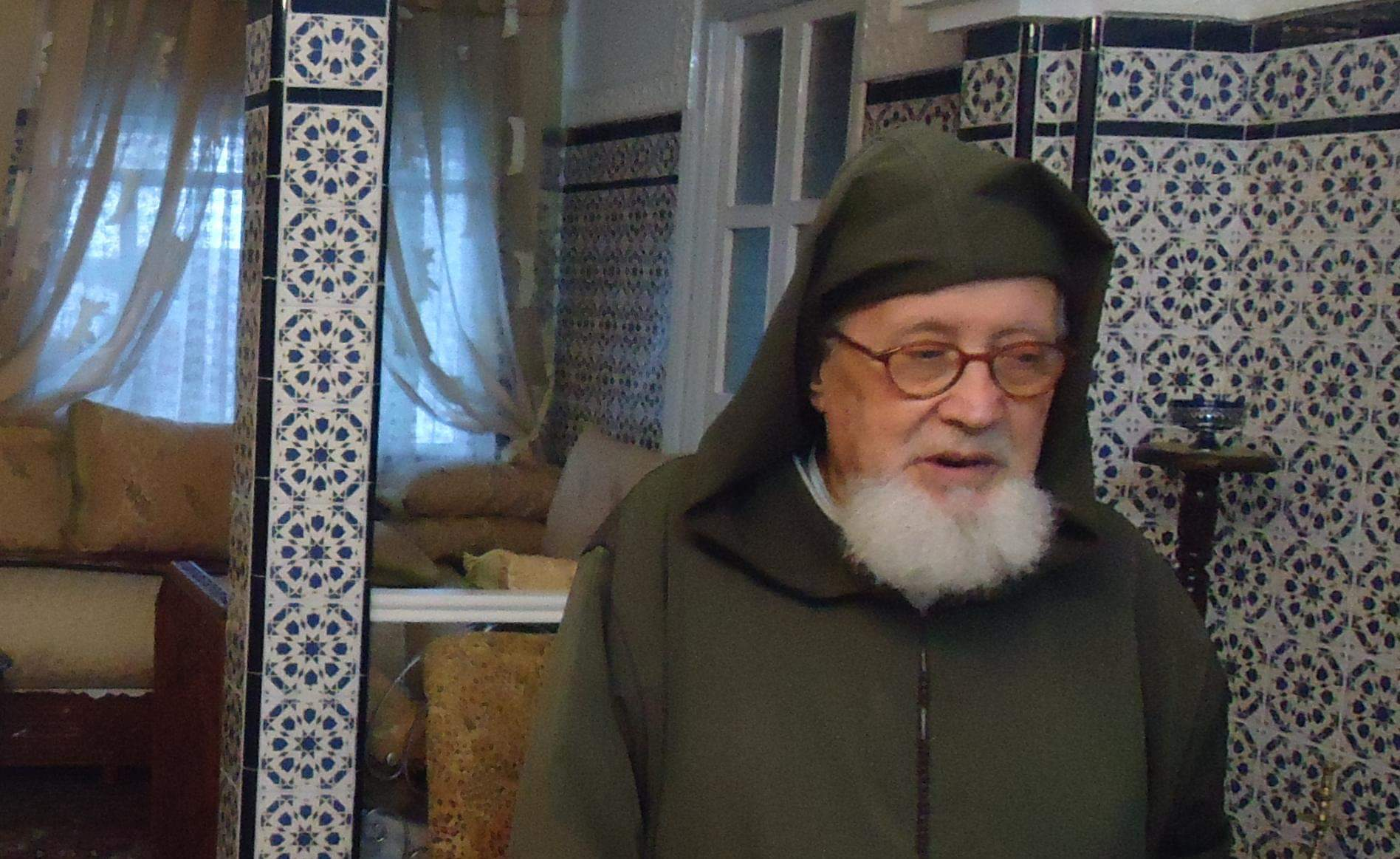 محمد بن الأمين بوخبزة أبو أويس